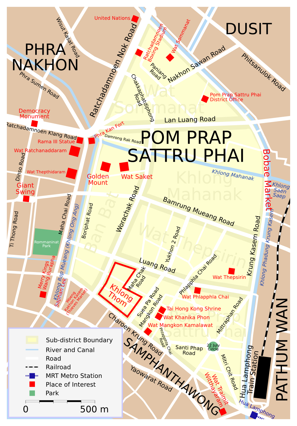 Map of Pom Prap Sattru Phai District, Bangkok.